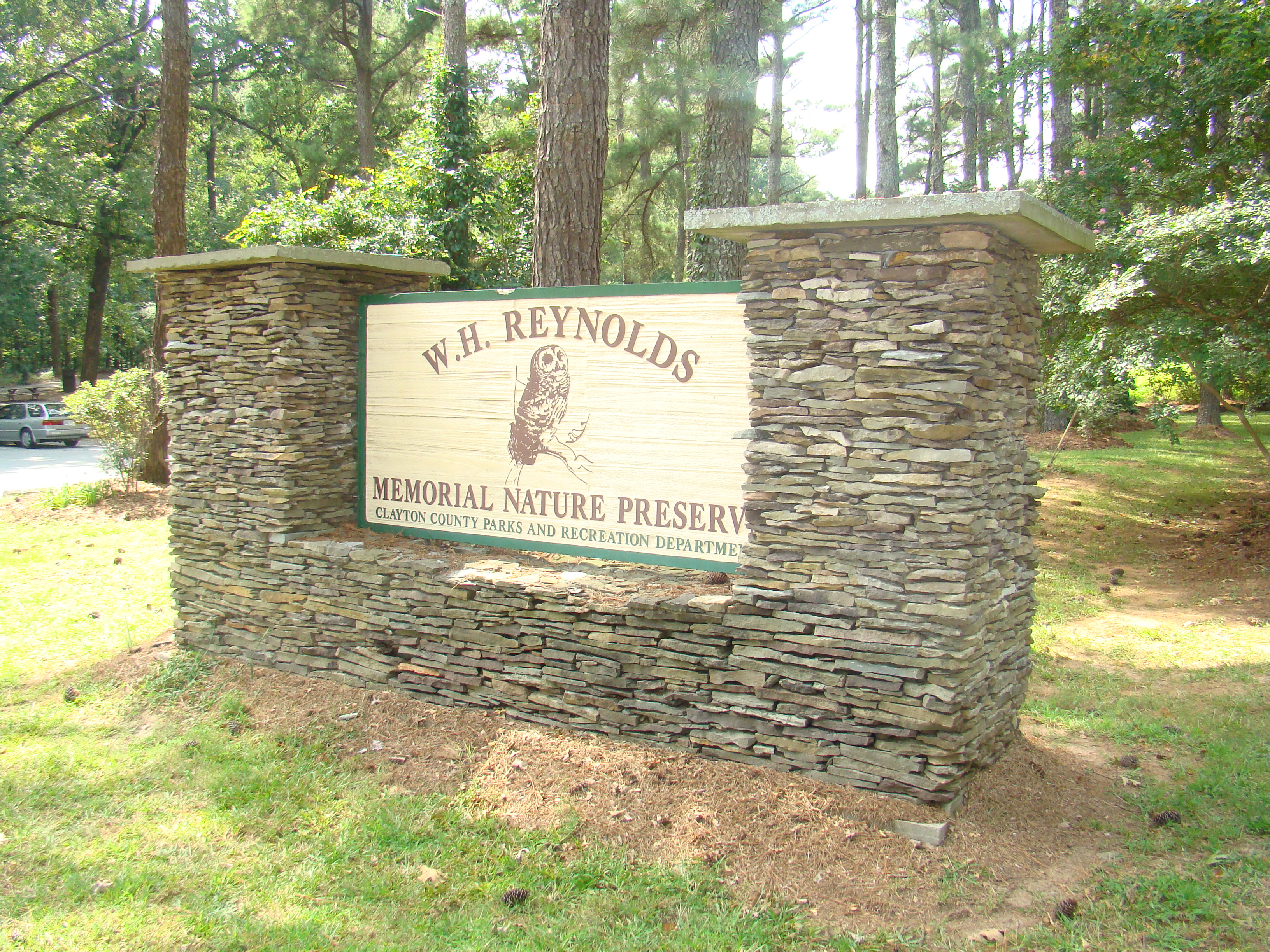 This is the RNP sign at the entrance to the parking lot.